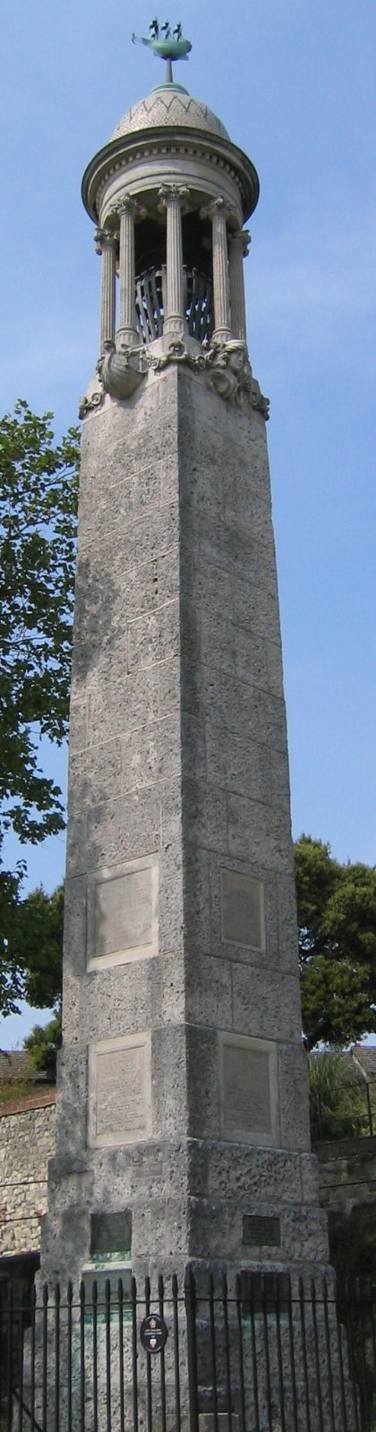 The Mayflower Memorial (by the old city walls) in Southampton, UK.